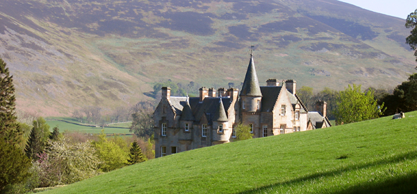 Situated in the Manor Valley, Peebles